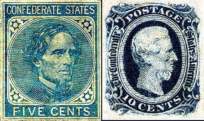 Confederate States of America President Jefferson Davis on CSA Postage Stamps.